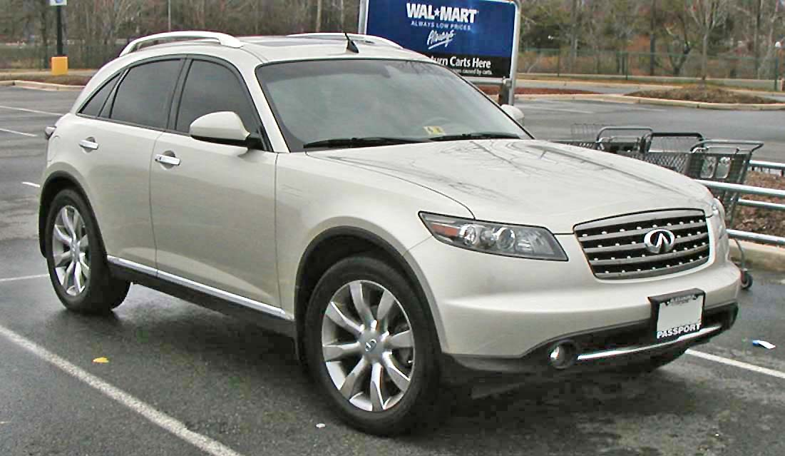 2006 Infiniti FX photographed in USA.